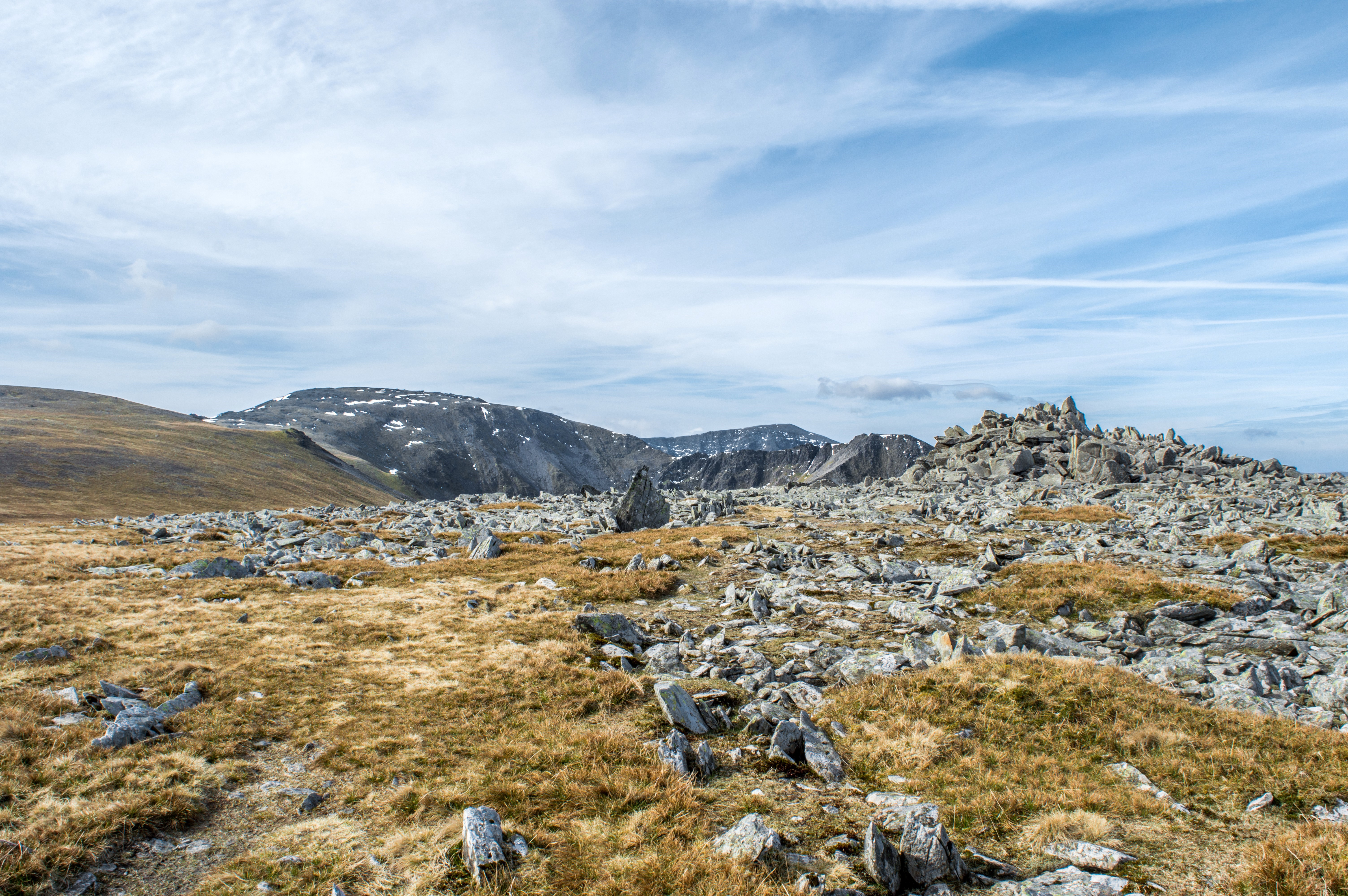 The rocky 'summit' of Carnedd Gwenllian (formerly Garnedd Uchaf), looking South-southwest across the Carneddau. Visible in the background from right to left are, yr Elen, Carnedd Dafydd, Carnedd Llewelyn and the western slope of Foel Grach.